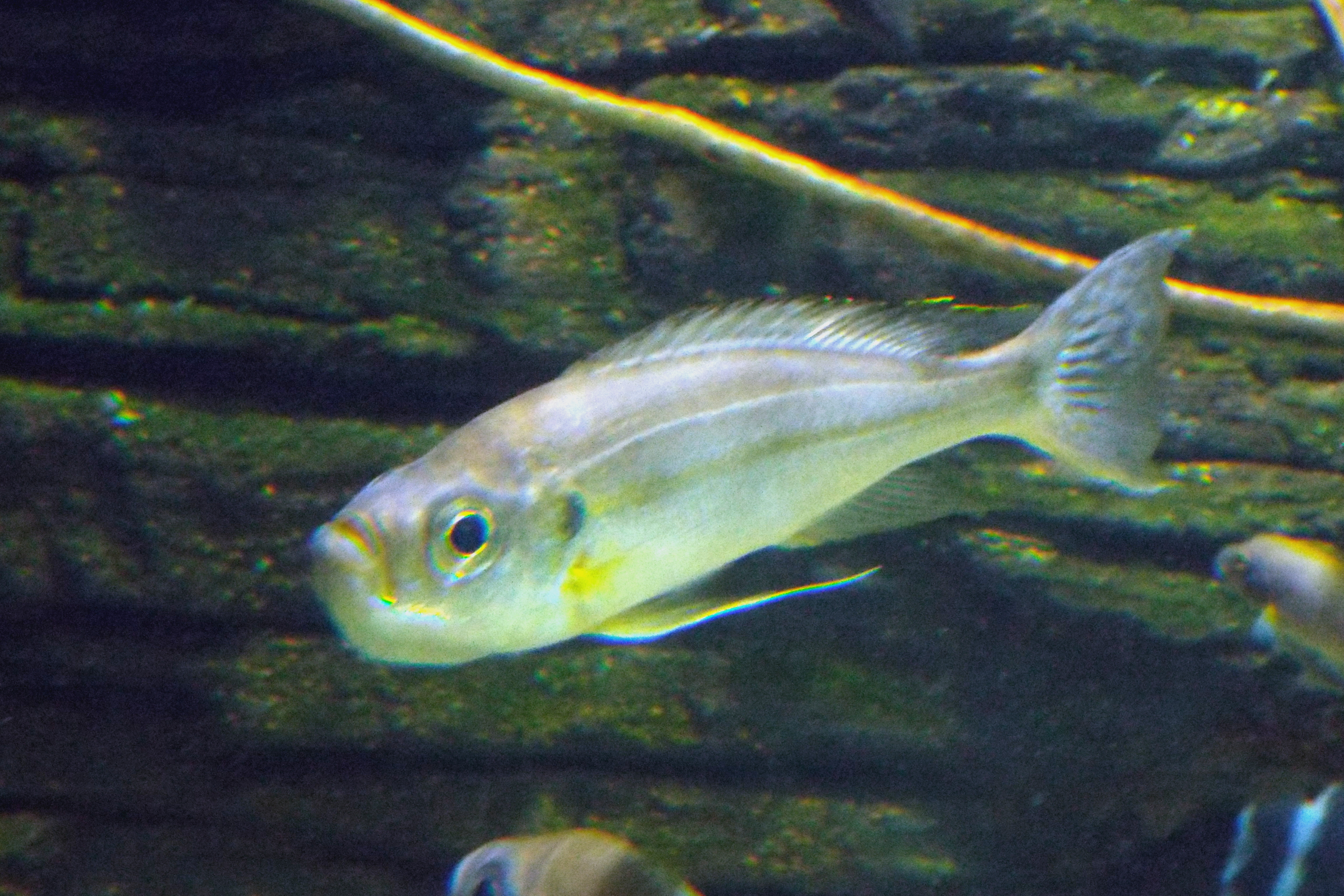 Haplotaxodon microlepis in the Tennessee Aquarium in Chattanooga, TN